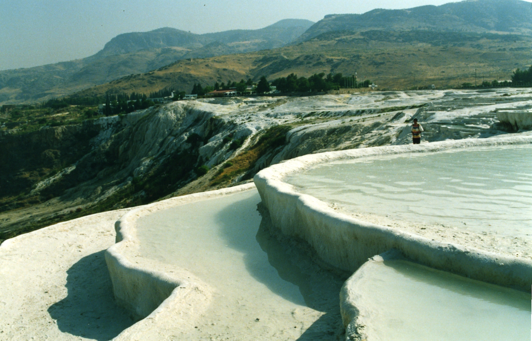 Limestone concretions in Pamukkale, Turkey